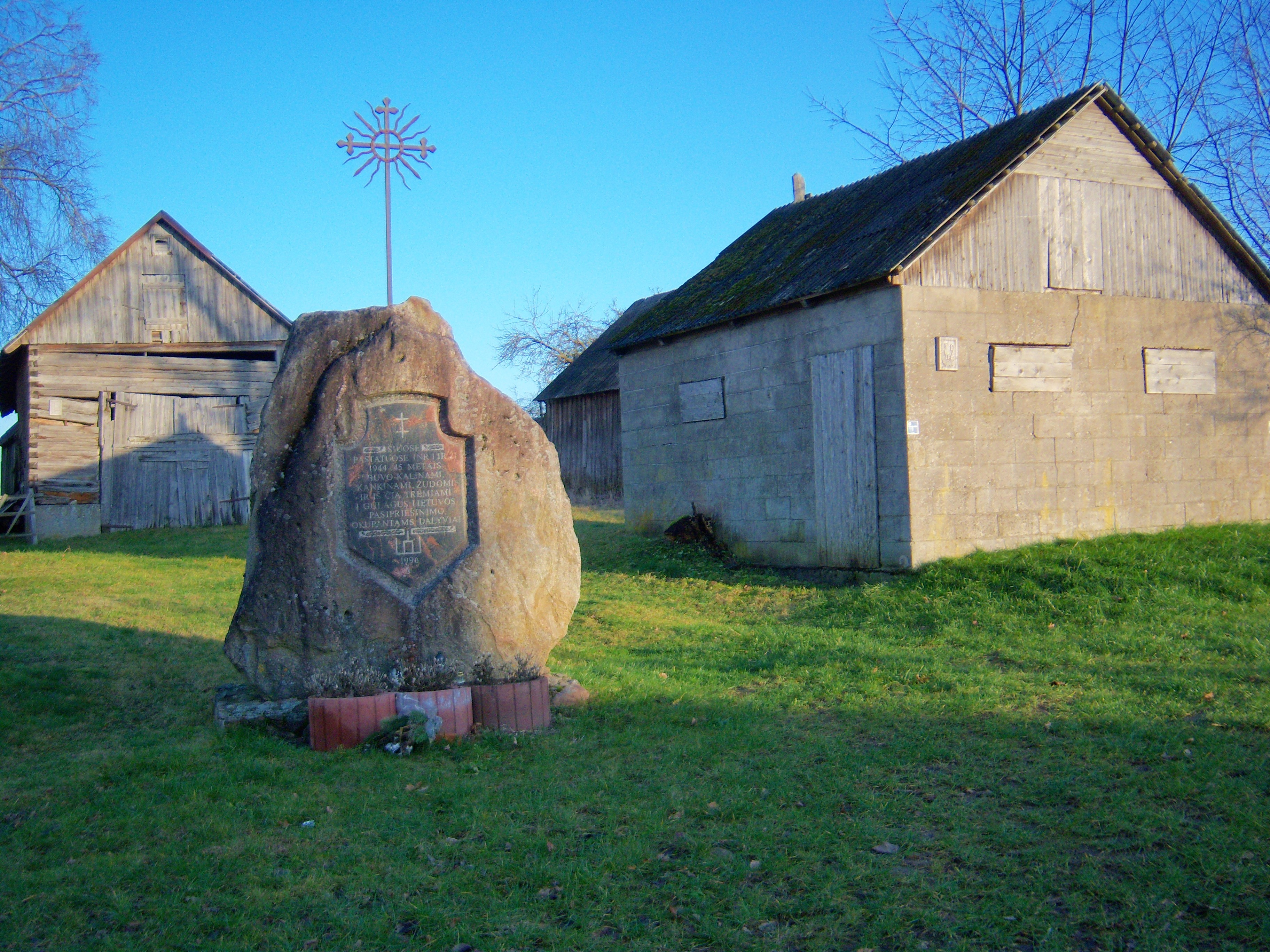 Stone to partisans, Šiluva, Raseiniai District, Lithuania